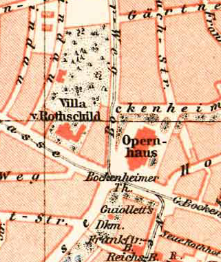 Frankfurt city map, 1893, showing the Opera, Bockenheim Gate and Rothschild Park.